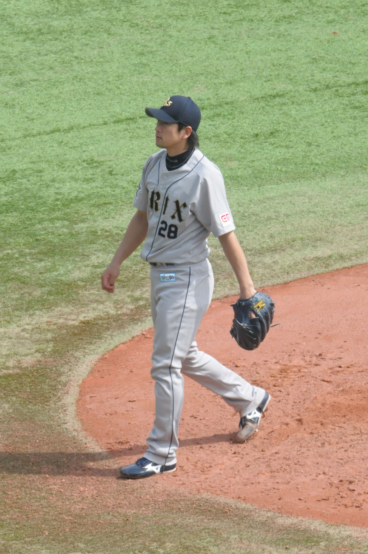 Satoshi Komatsu, pitcher of the Orix Buffaloes, at QVC Marine Field.